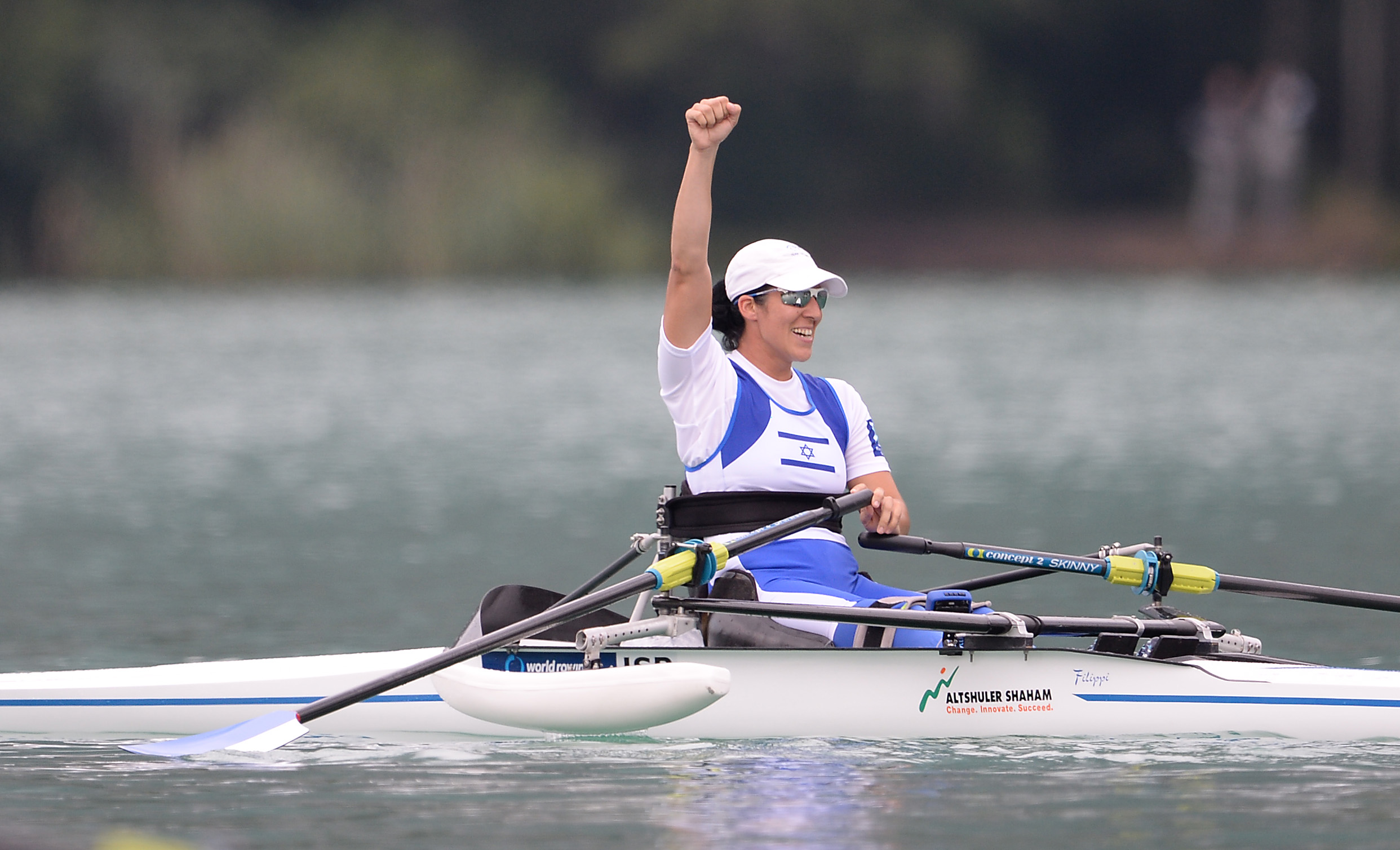 MORAN SAMUEL, WORLD CHAMPION, PHOTO BY DETLEV SEYB